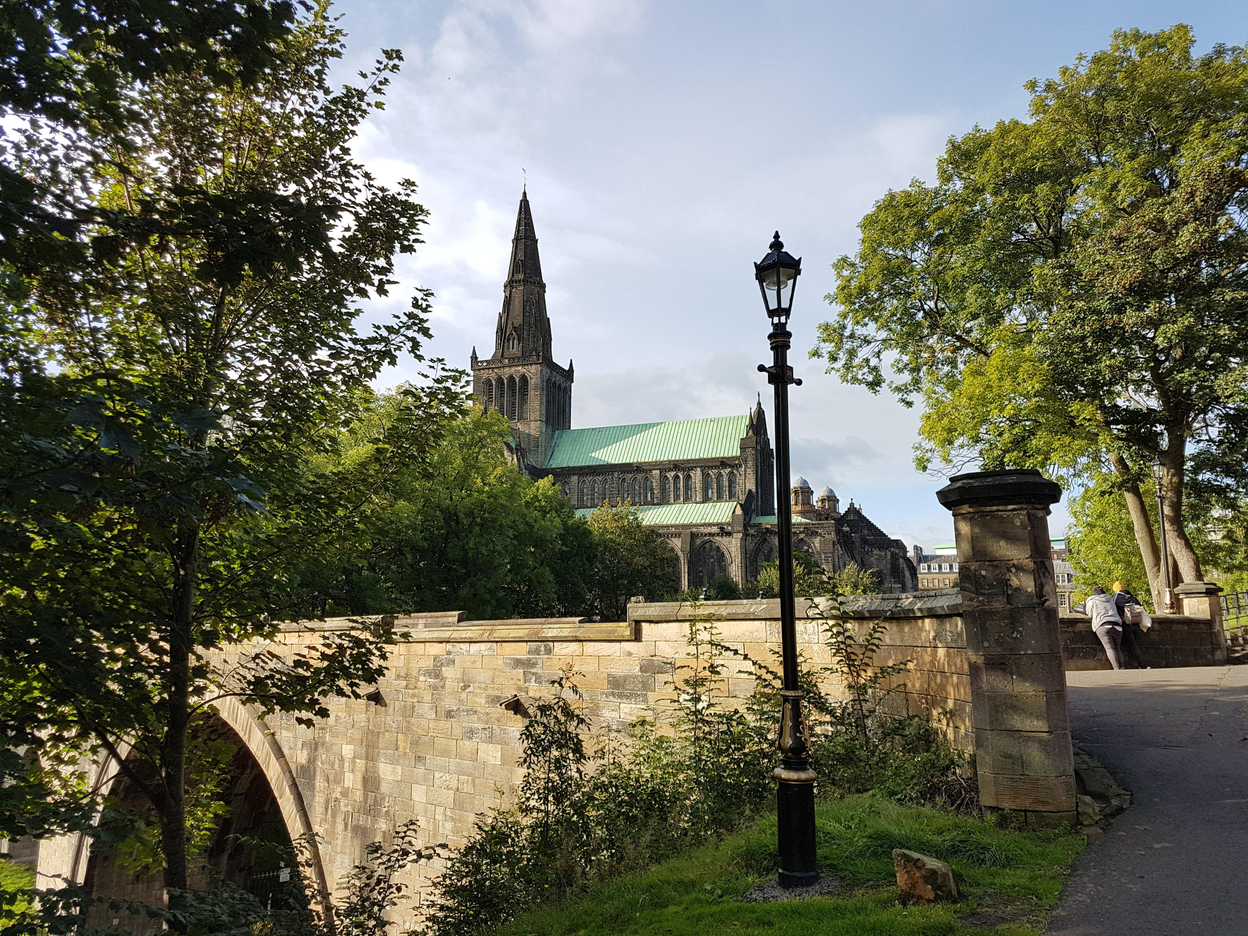 Cathedral Square, Bridge Of Sighs Wikidata has entry Q17567354 with data related to this item.